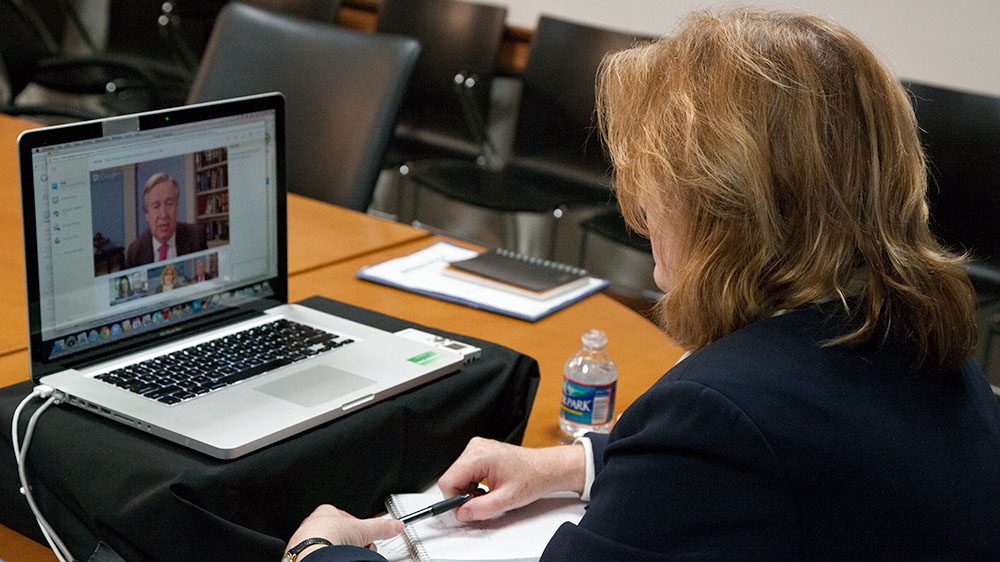 Anne Richard, U.S. Assistant Secretary of State for Population, Refugees, and Migration, participates in a Google+ Hangout with Antonio Guterres, UN High Commissioner for Refugees, and Lara Setrakian, Founder of Syria Deeply, on assistance to Syria on March 19, 2013. [State Department photo/ Public Domain]